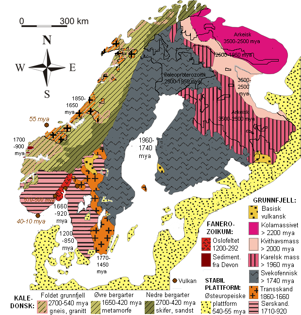 Baltic shield, geology, revised